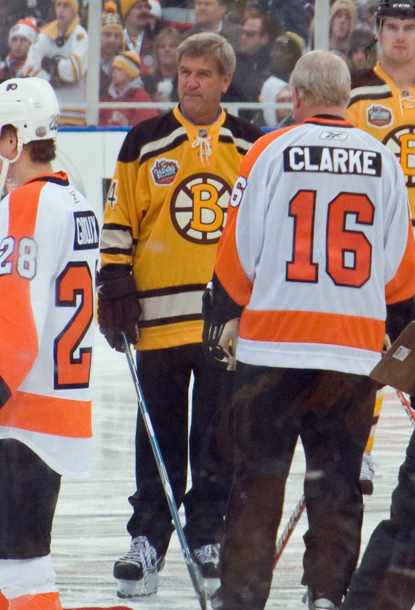 2010 NHL Winter Classic pre-game Bobby Orr gets ready for the ceremonial puck drop.